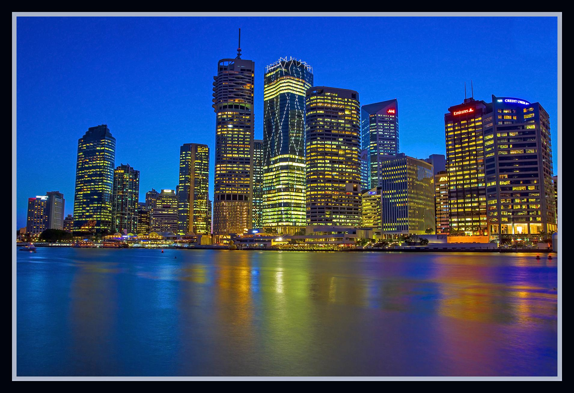 Brisbane Riverside at Dusk